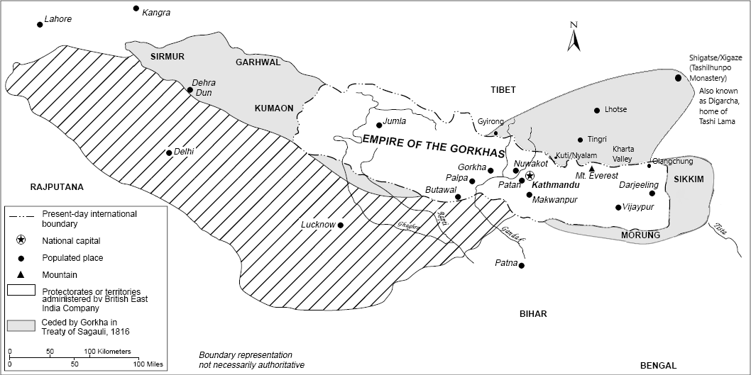 Added territorial expansions from Nepalese-Tibetan war campaigns.